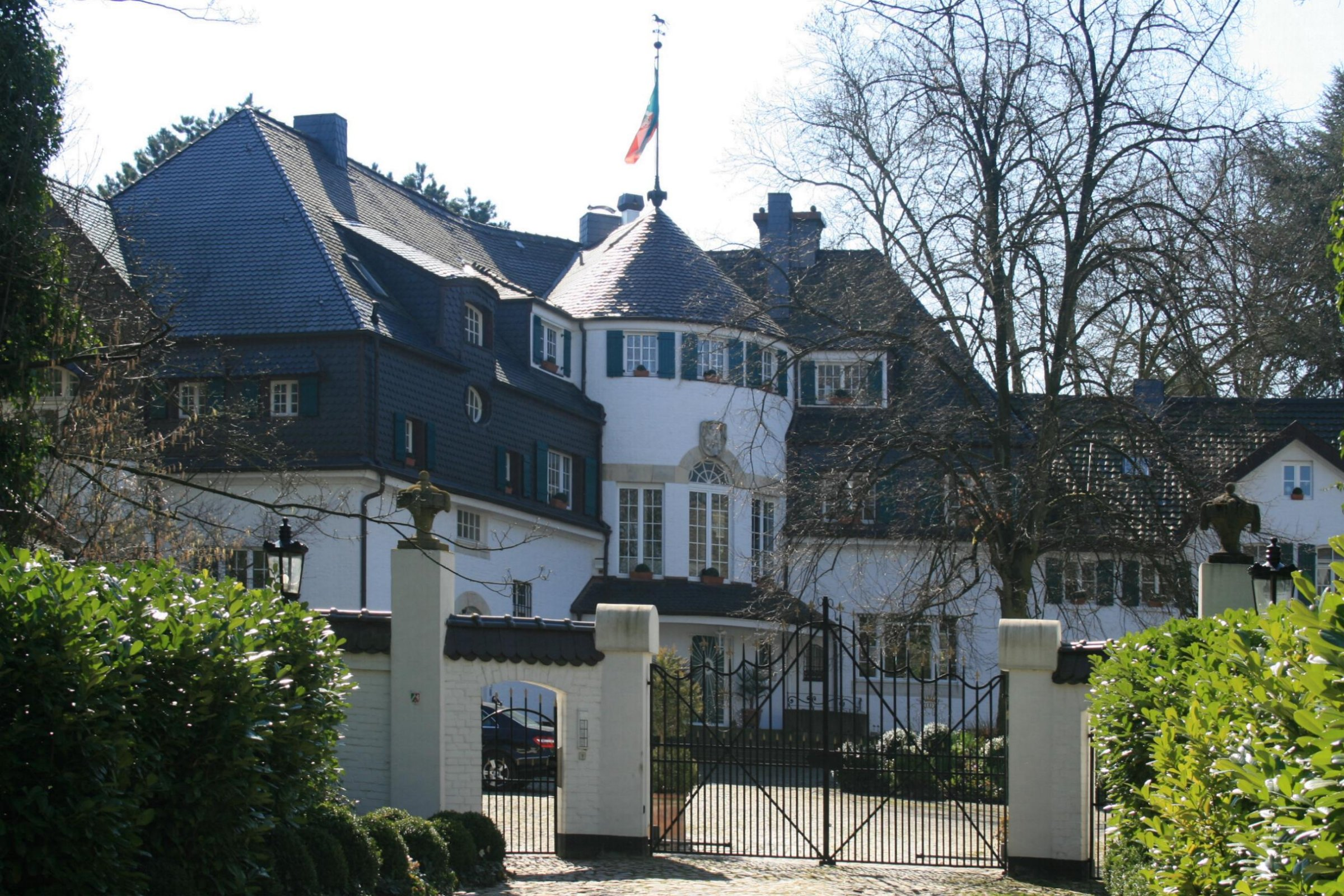 Cultural heritage monument No. 7 in Langerwehe